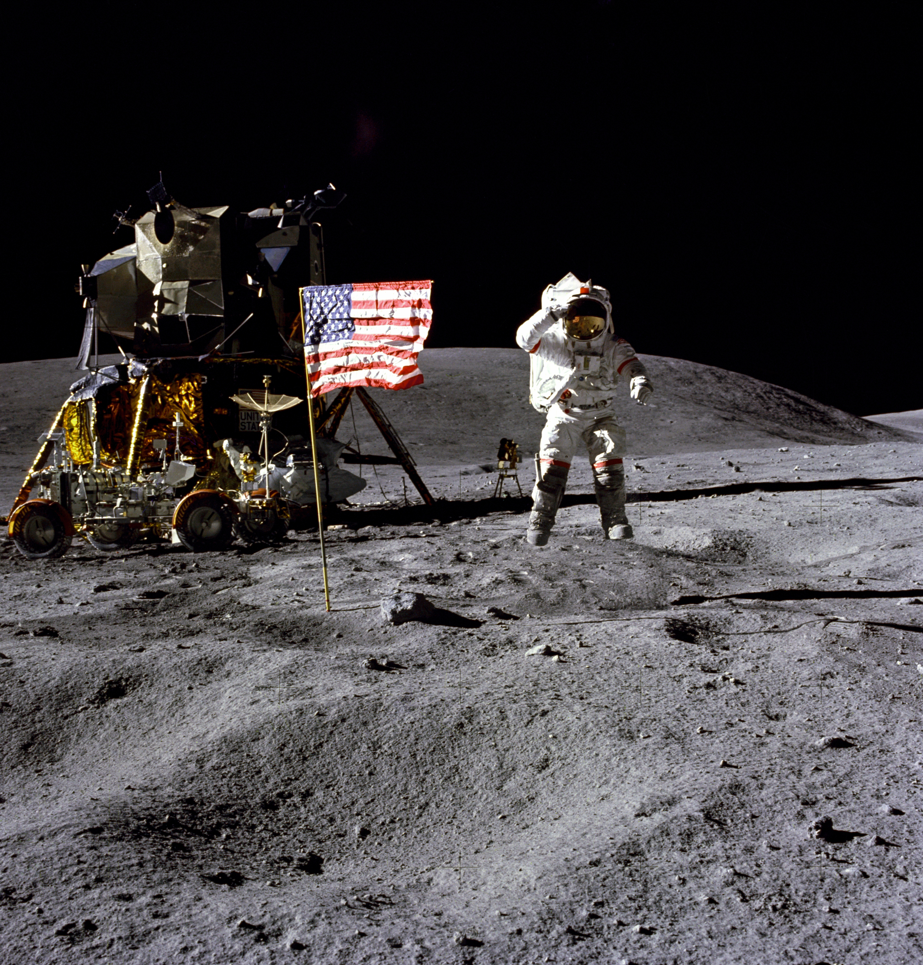 Astronaut John W. Young, commander of the Apollo 16 lunar landing mission, jumps up from the lunar surface as he salutes the U.S. Flag at the Descartes landing site during the first Apollo 16 extravehicular activity (EVA-1). Astronaut Charles M. Duke Jr., lunar module pilot, took this picture. The Lunar Module (LM) "Orion" is on the left. The Lunar Roving Vehicle is parked beside the LM. The object behind Young in the shade of the LM is the Far Ultraviolet Camera/Spectrograph. Stone Mountain dominates the background in this lunar scene.